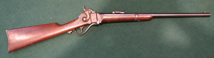 Sharps 1863 Carbine .50-70 calibre